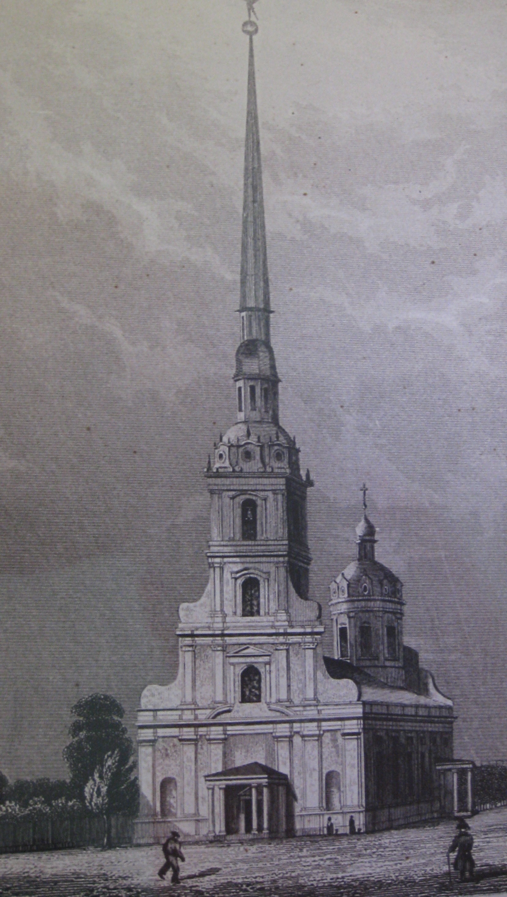 Historic images of Saint Peter & Paul Cathedral